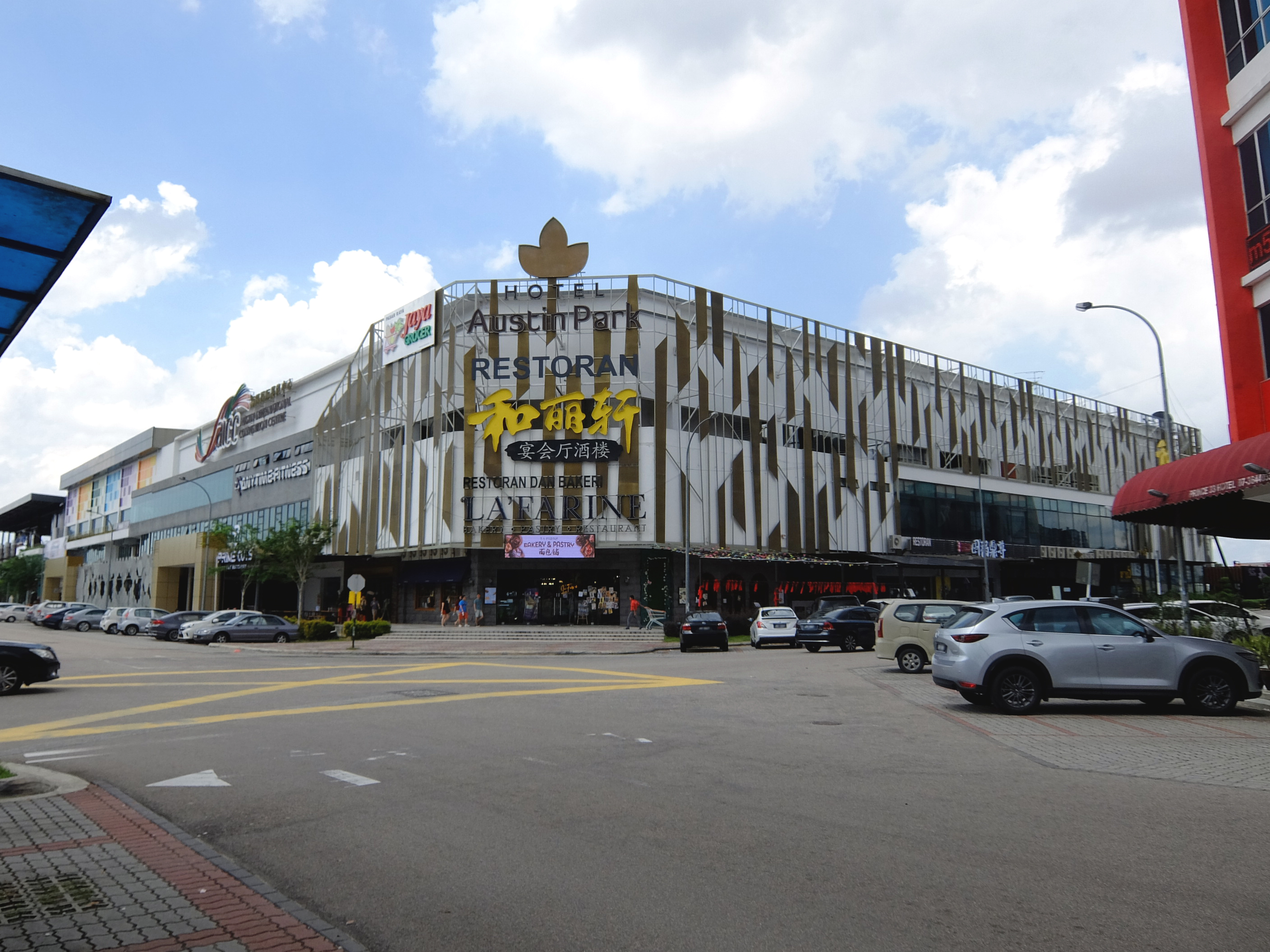 Austin International Convention Centre, Mount Austin, Johor Bahru, Johor, Malaysia